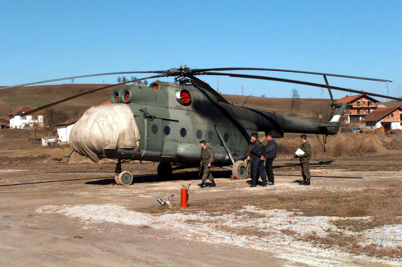 SFOR personnel inspects a Bosnian Muslim Army Mi-8T Helicopter while conducting a site survey at Coralici Airfield, Bosnia-Herzegovina during Operation Joint Endeavor. Operation Joint Endeavor is a peacekeeping effort by a multinational Implementation Force (IFOR), comprised of NATO and non-NATO military forces, deployed to Bosnia in support of the Dayton Peace Accords.